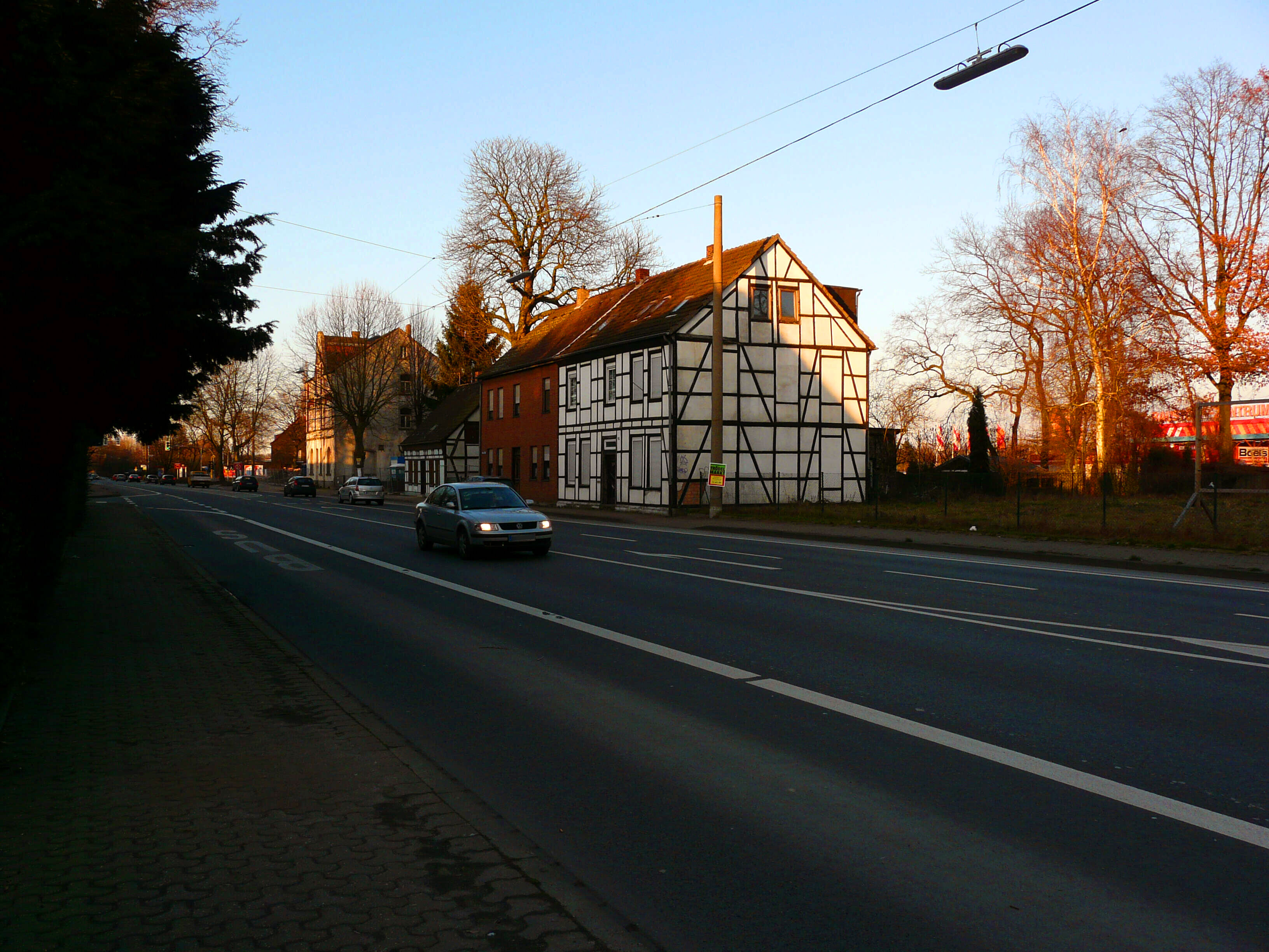 The B 235 in Datteln-Meckinghoven